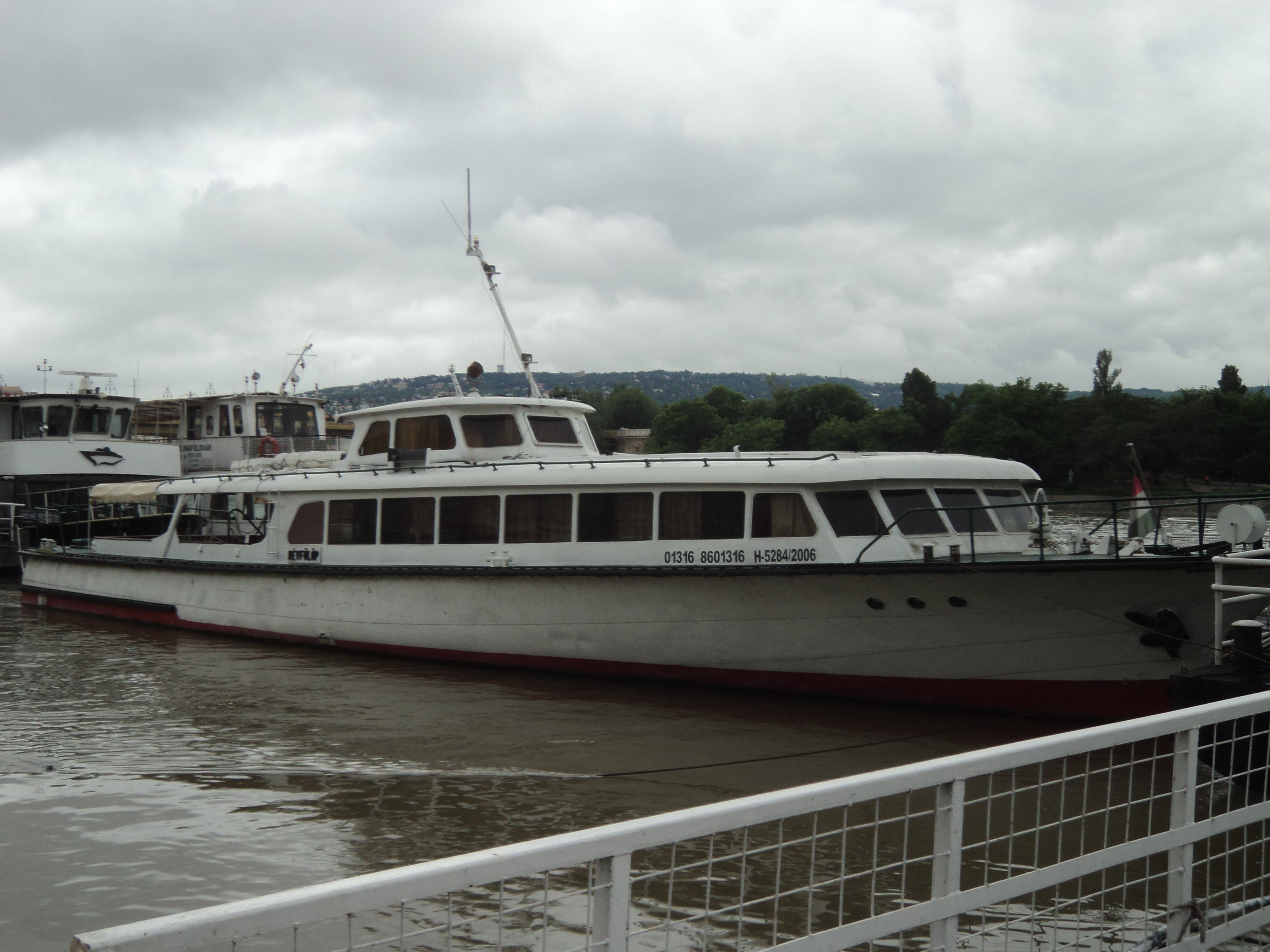 Révfülöp (ship, 1963) at Budapest, 2019.